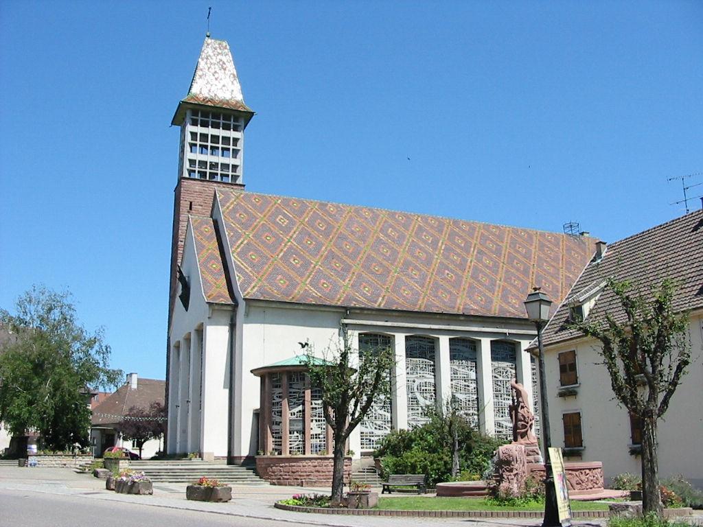 Bennwihr is a commune in the Haut-Rhin département, in Alsace, northeastern France. The church Saint-Pierre was built from 1957 to 1960 according to the plans of the architects Pouradier and Pillon. You will be able to admire there contemporary stained glasses of Martineau.